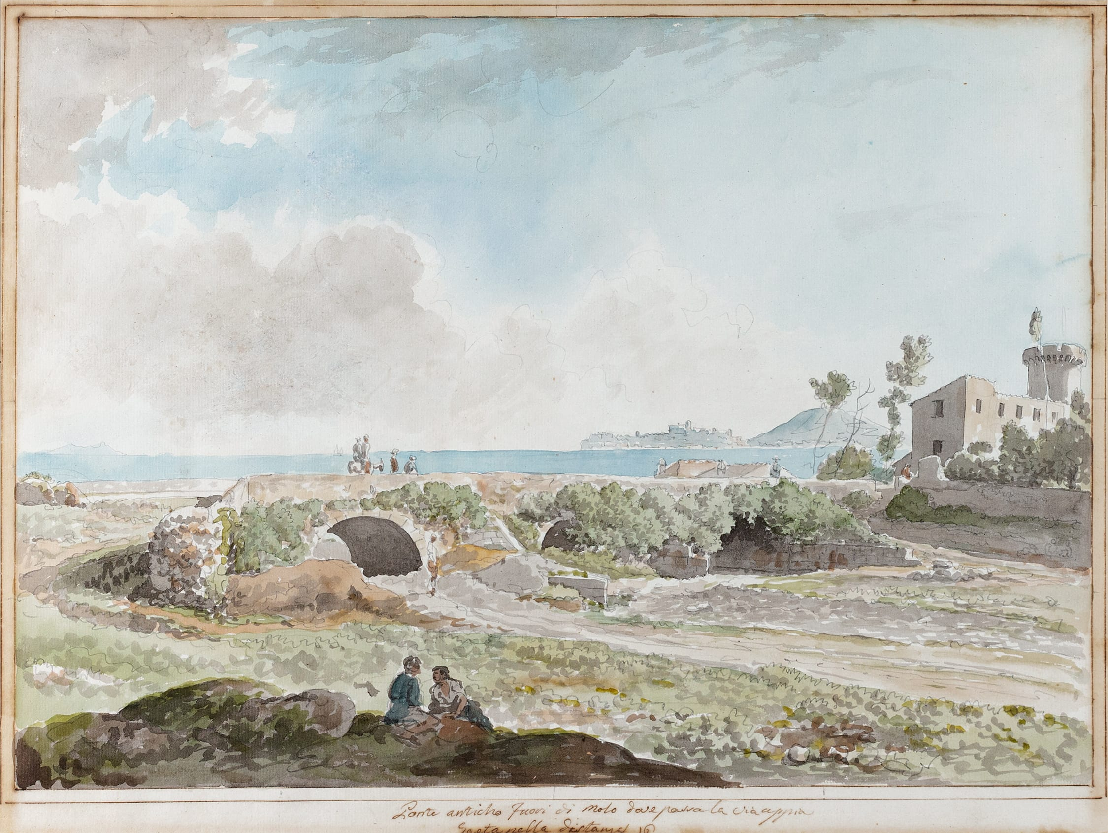 Offered for sale by Abbott and Holder in late June 2020 when it was described as "‘Ponte antico fuori di Molo (sic. Mola di Gaeta) dove passa la Via Appia / Gaeta nella distanza 16’; (‘Ancient bridge outside Molo (sic) where the Via Appia passes, Gaeta in the distance’). Pencil, pen, ink and watercolour. c.1789-1793. Inscribed and numbered ‘196’. Watermark: Beehive within a shield. Possibly manufactured by J. Honig and Zoonen. See Heawood Nos.54-57. Provenance: Commissioned by Sir Richard Colt Hoare (1758-1838) in 1789; with Messrs. Palmer (Print Sellers at 163 Strand London) by February 1794; whereabouts unknown until rediscovered in London during WWII bound into one of four albums of Labruzzi’s Appian Way watercolours; John Manning (Bond Street), 1960; Karl & Faber Auctioneers, May 1977, Lot 680. Exhibited: John Manning, Carlo Labruzzi (1748-1817) An Exhibition of Fine Watercolour Drawings of The Appian Way, 9th June – 16th July 1960, Cat. No.89. 16x21.5 inches." For more, see [1].